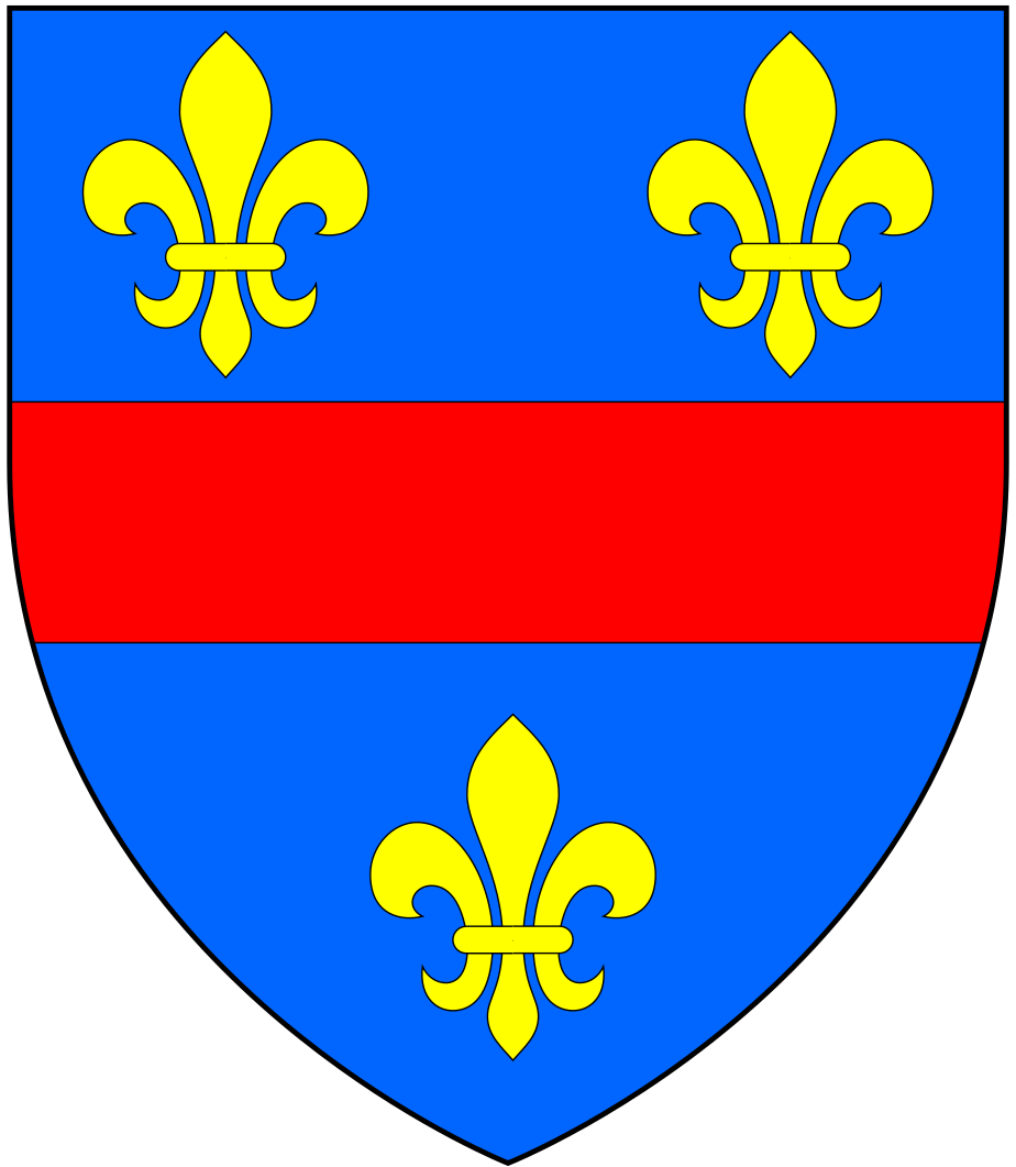 Arms of de Leycester of Tabley Old Hall, Cheshire: Azure, a fess gules between three fleurs-de-lys or. The arms of Leycester are a known contravention of the heraldic "rule of tinctures".( Encyclopaedia Britannica, 1902, 9th and 10th editions, "Heraldry"[1])[2]